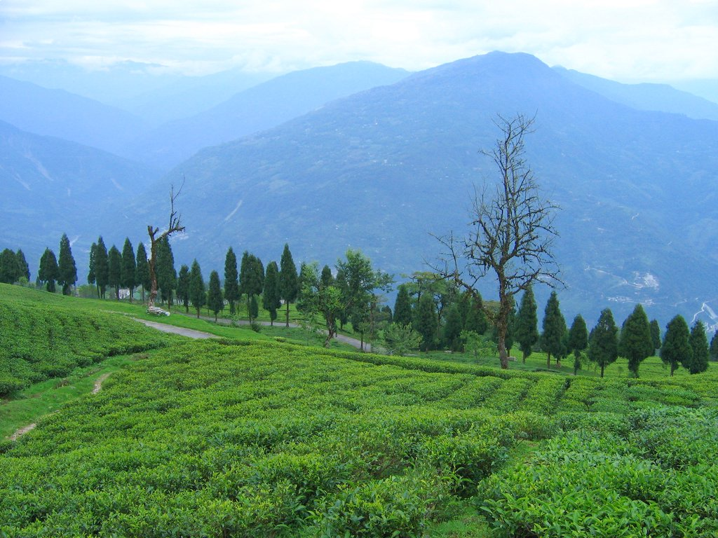 Temi Tea Gardens in Ravangla